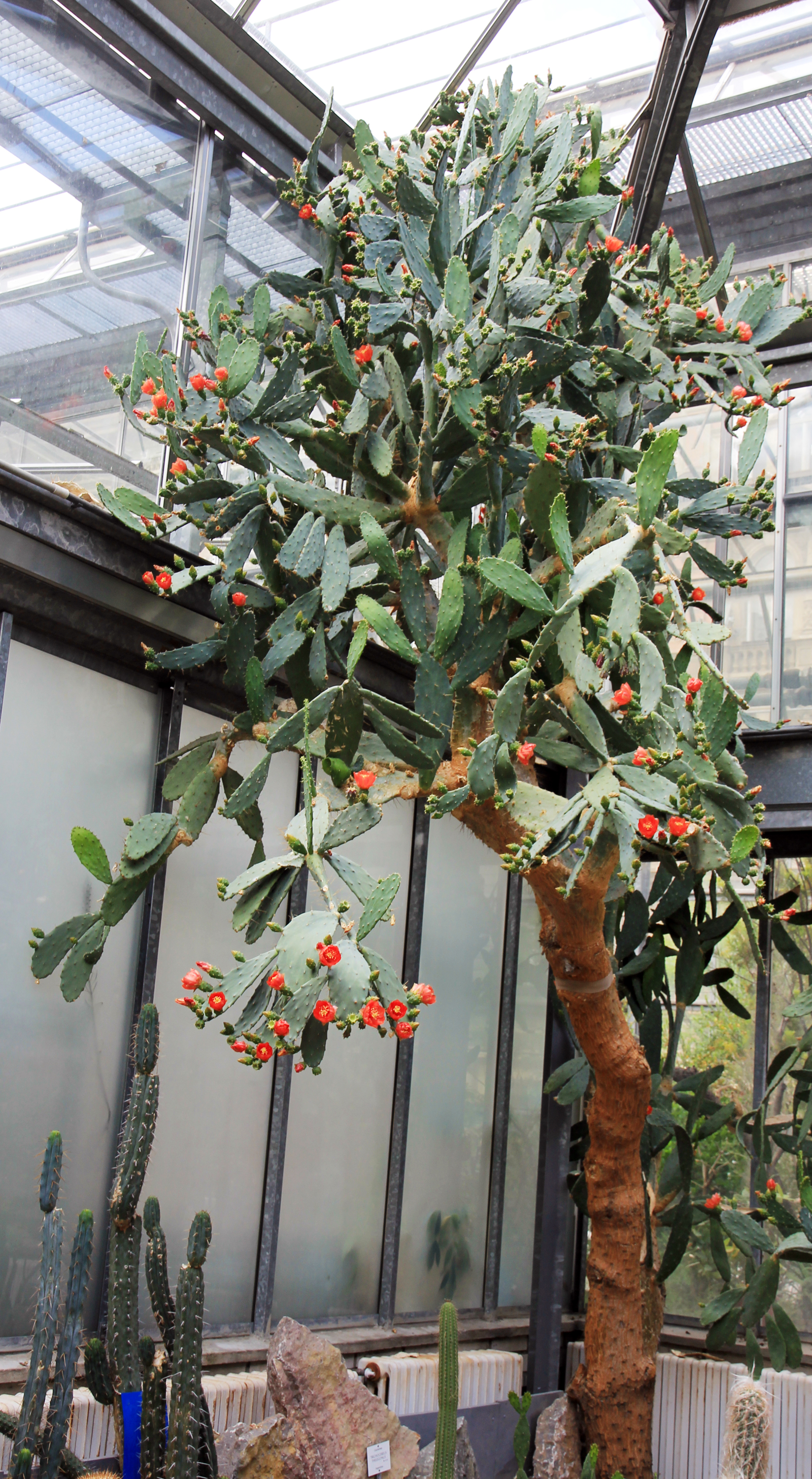 Cactus Opuntia elatior from greenhouse of the Botanical Gardens of Charles University, Prague, Czech Republic